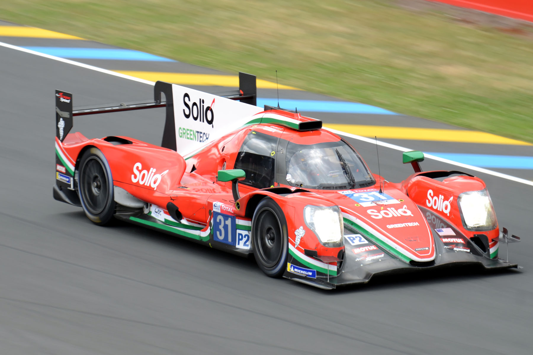 DragonSpeed's Oreca 07 Gibson driven by Roberto González, Pastor Maldonado and Nathanaël Berthon at the 2018 24 Hours of Le Mans